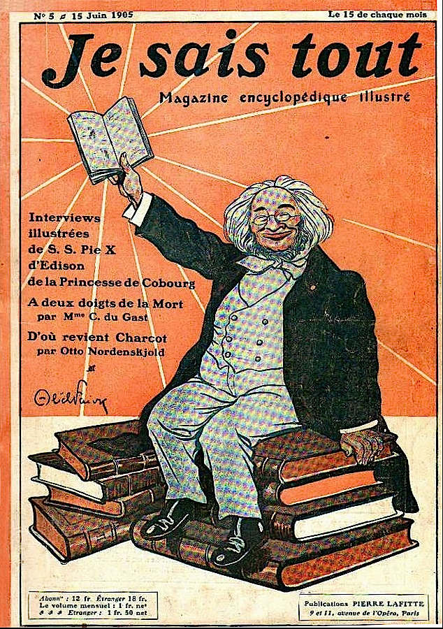 Je sais tout, cover magazine illustration by Abel Faivre, printed in Paris.